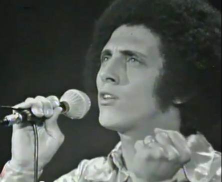 screenshot from the TV series Canzonissima (1974)